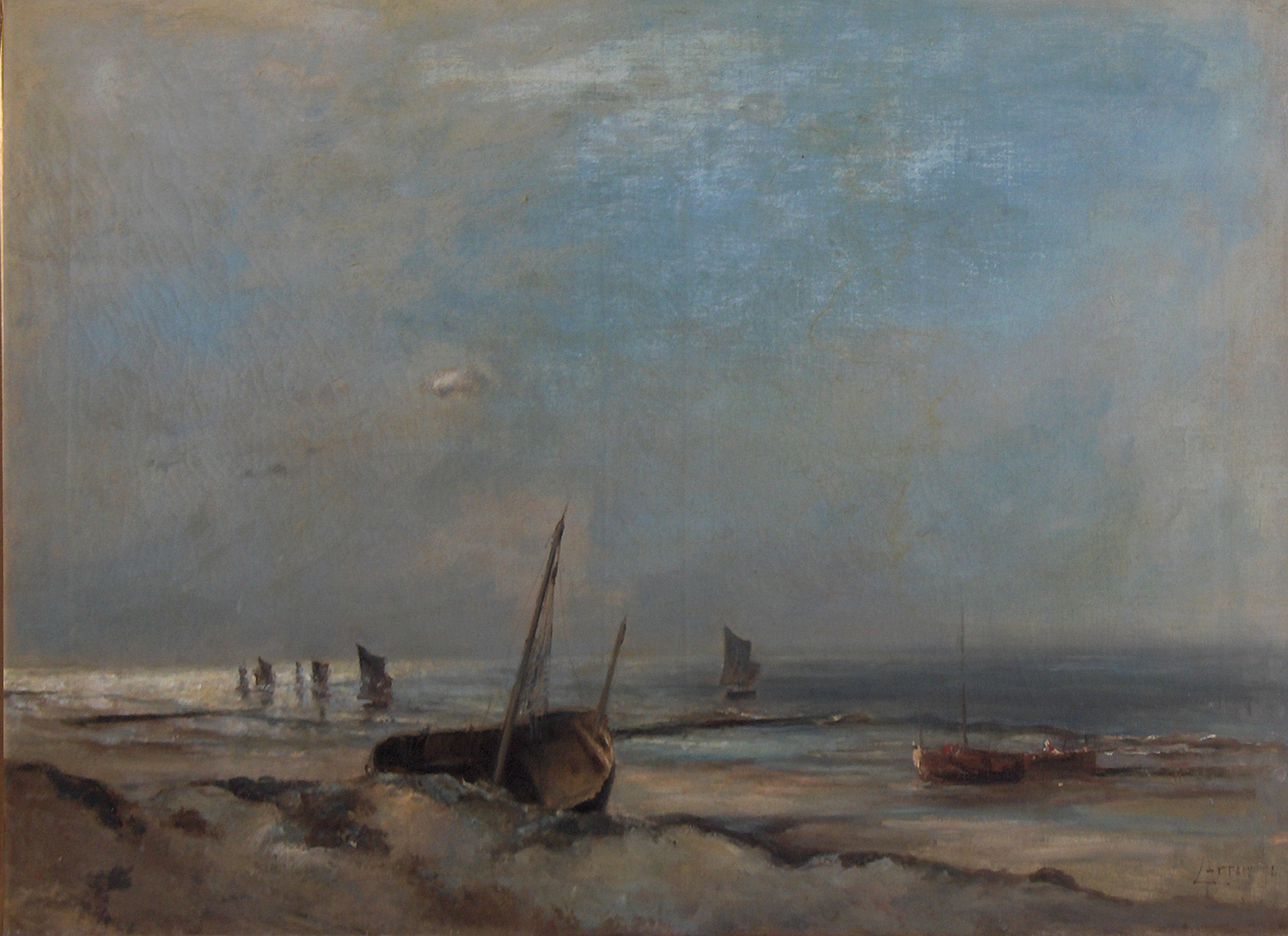 "Stranded vessels on the beach", painting by Louis Artan (1837-1890)